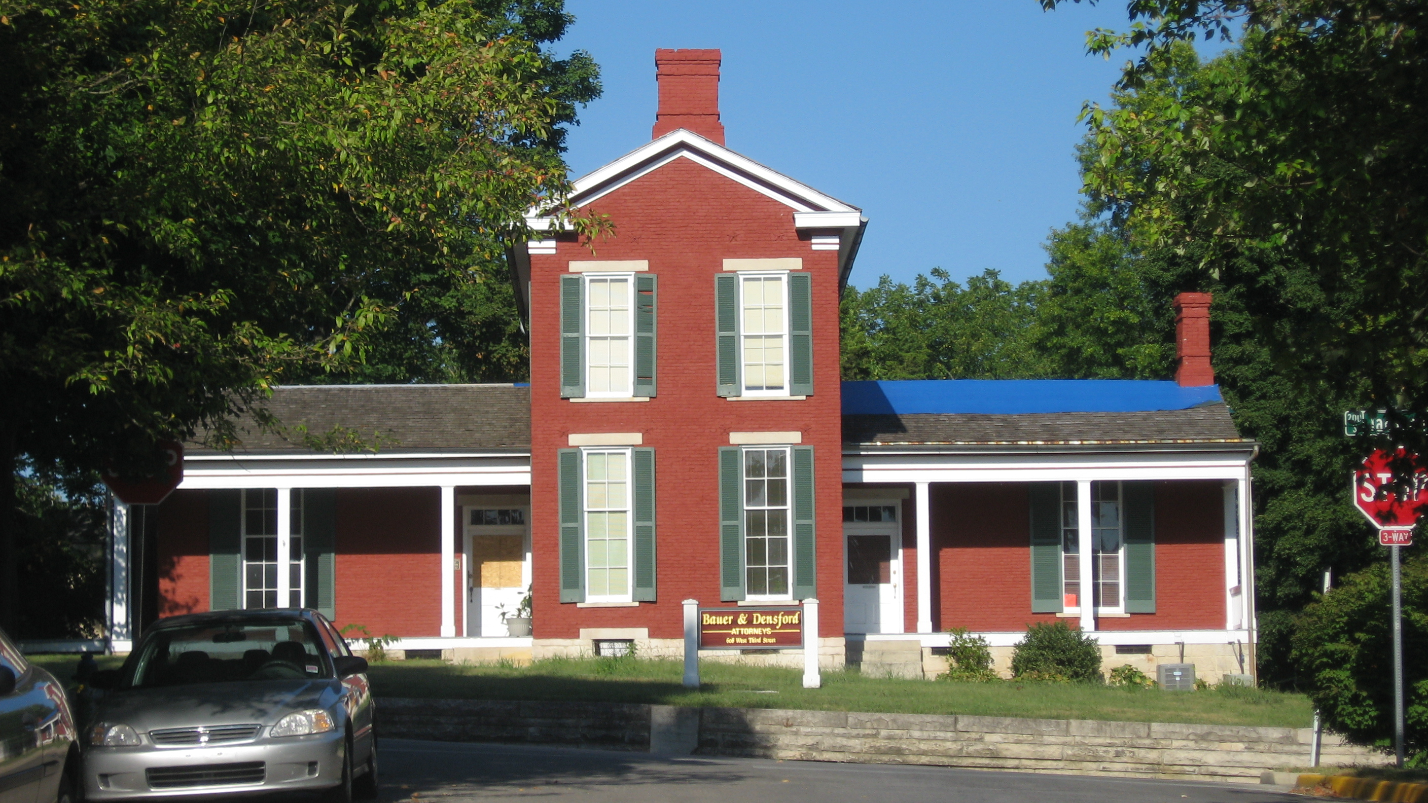 Front of the Blair-Dunning House, located at 608 W. Third Street in Bloomington, Indiana, United States. Built in 1822 and later the home of Paris C. Dunning, it is listed on the National Register of Historic Places.